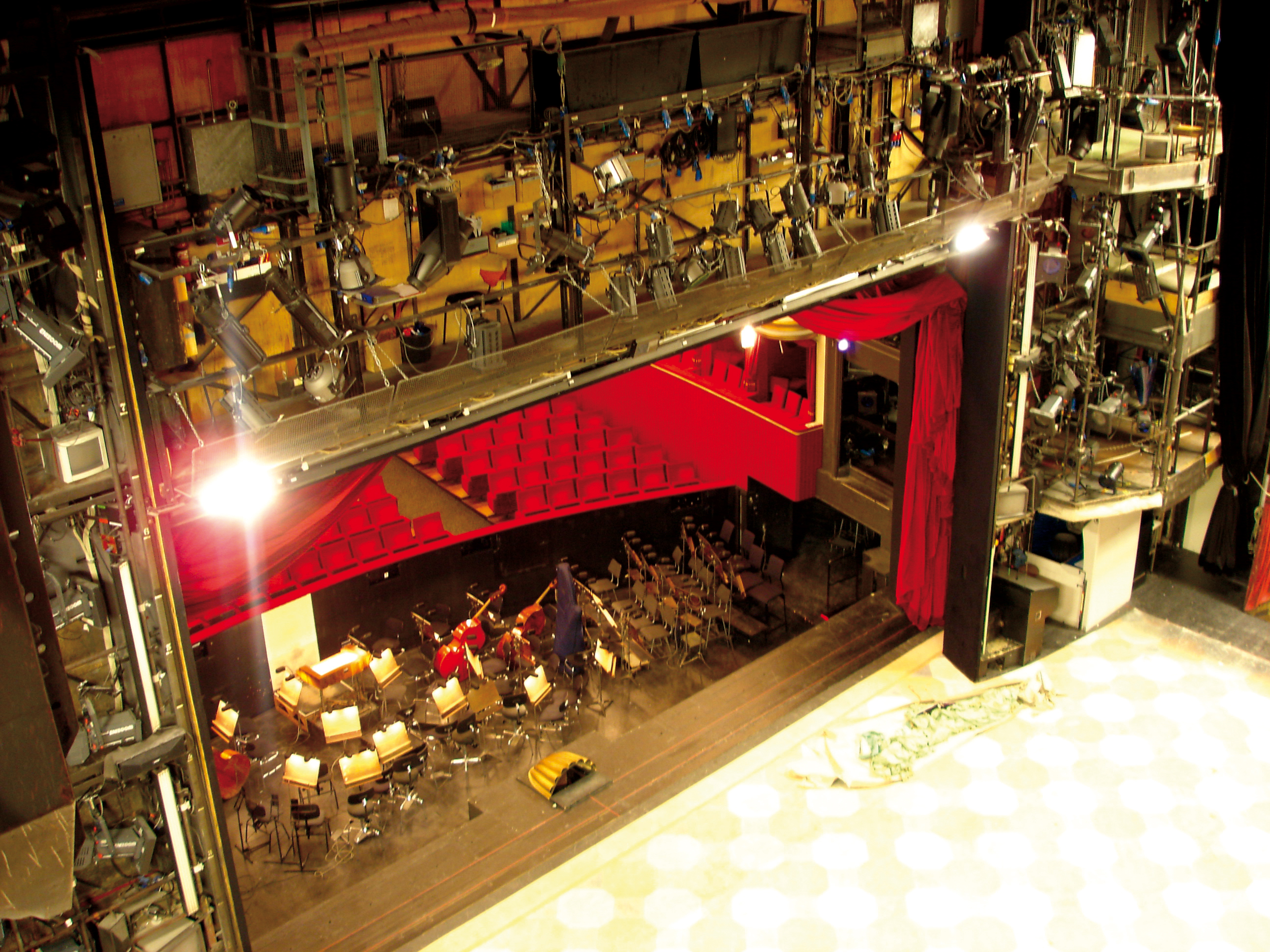 lighting and orchestrag pit of the Volksoper Vienna